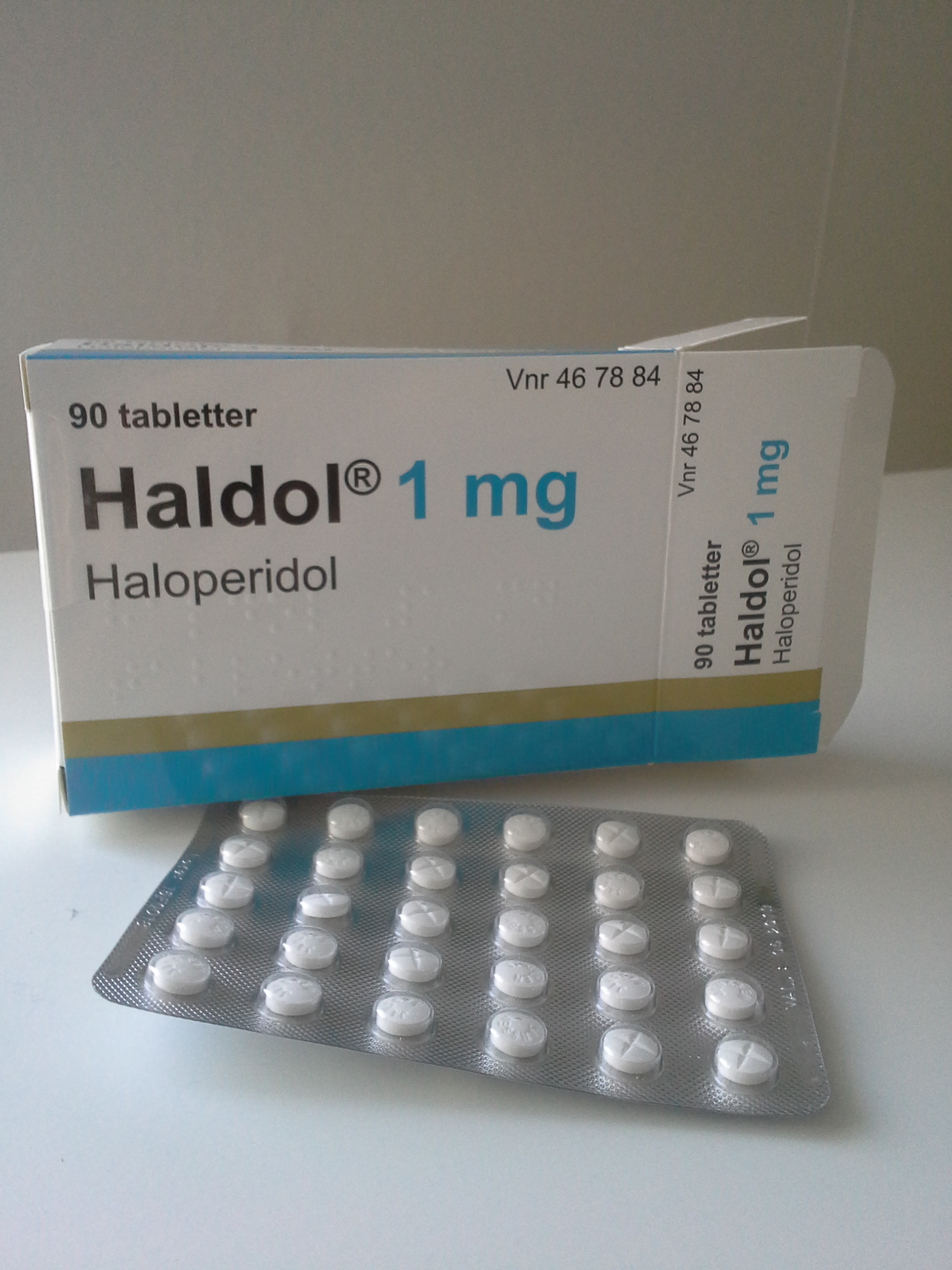 Haldol 1 mg original